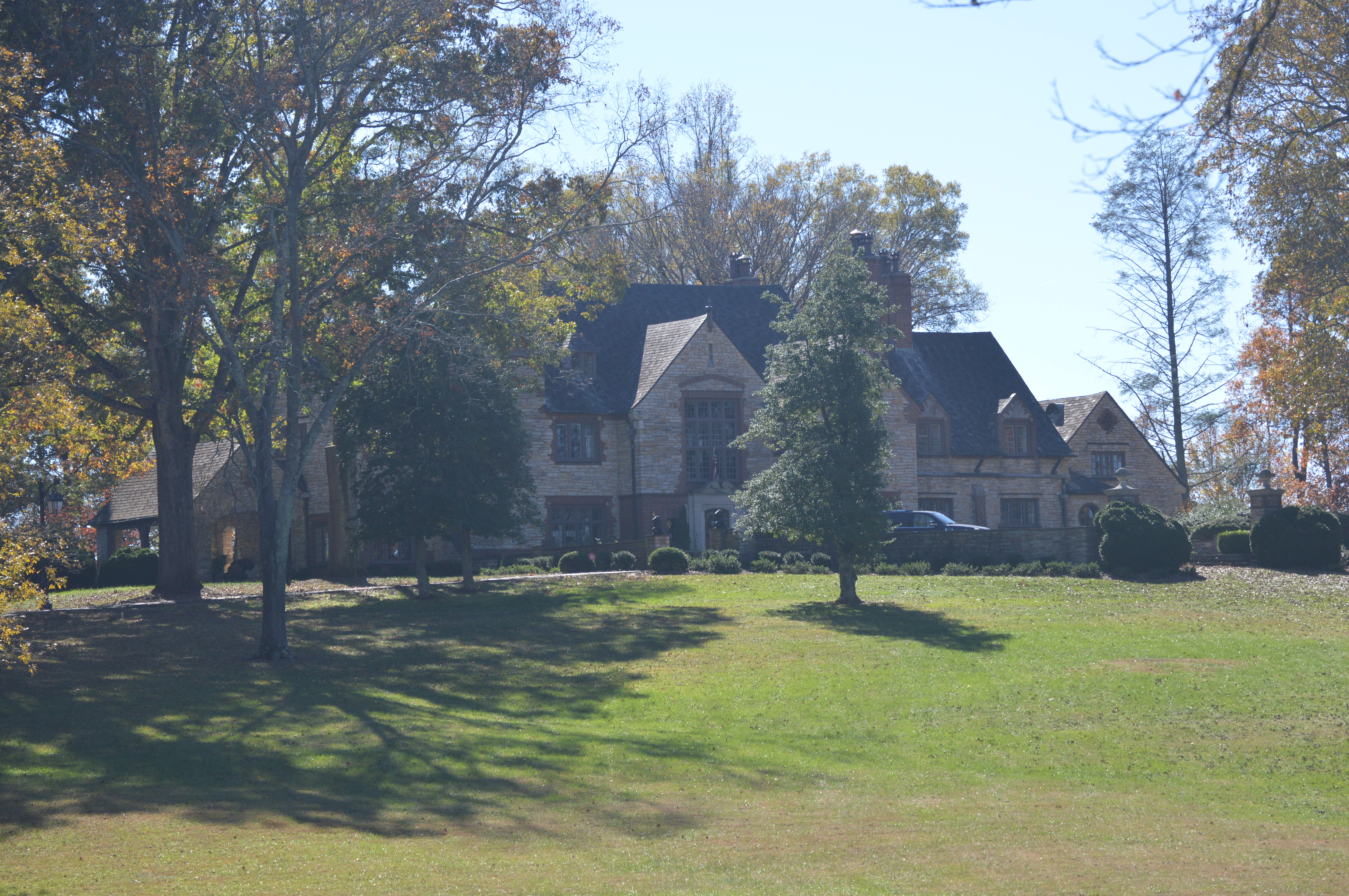 Roadside view of the Stoneleigh estate, located off Edgewood Drive northwest of Martinsville in Henry County, Virginia, United States. Built in 1929, it is listed on the National Register of Historic Places.